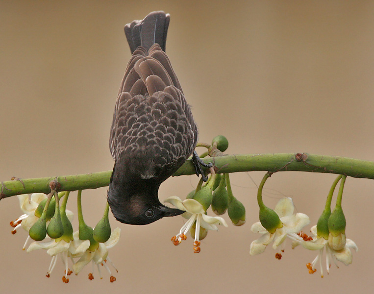 Red-vented Bulbul Pycnonotus cafer in Kolkata, West Bengal, India.